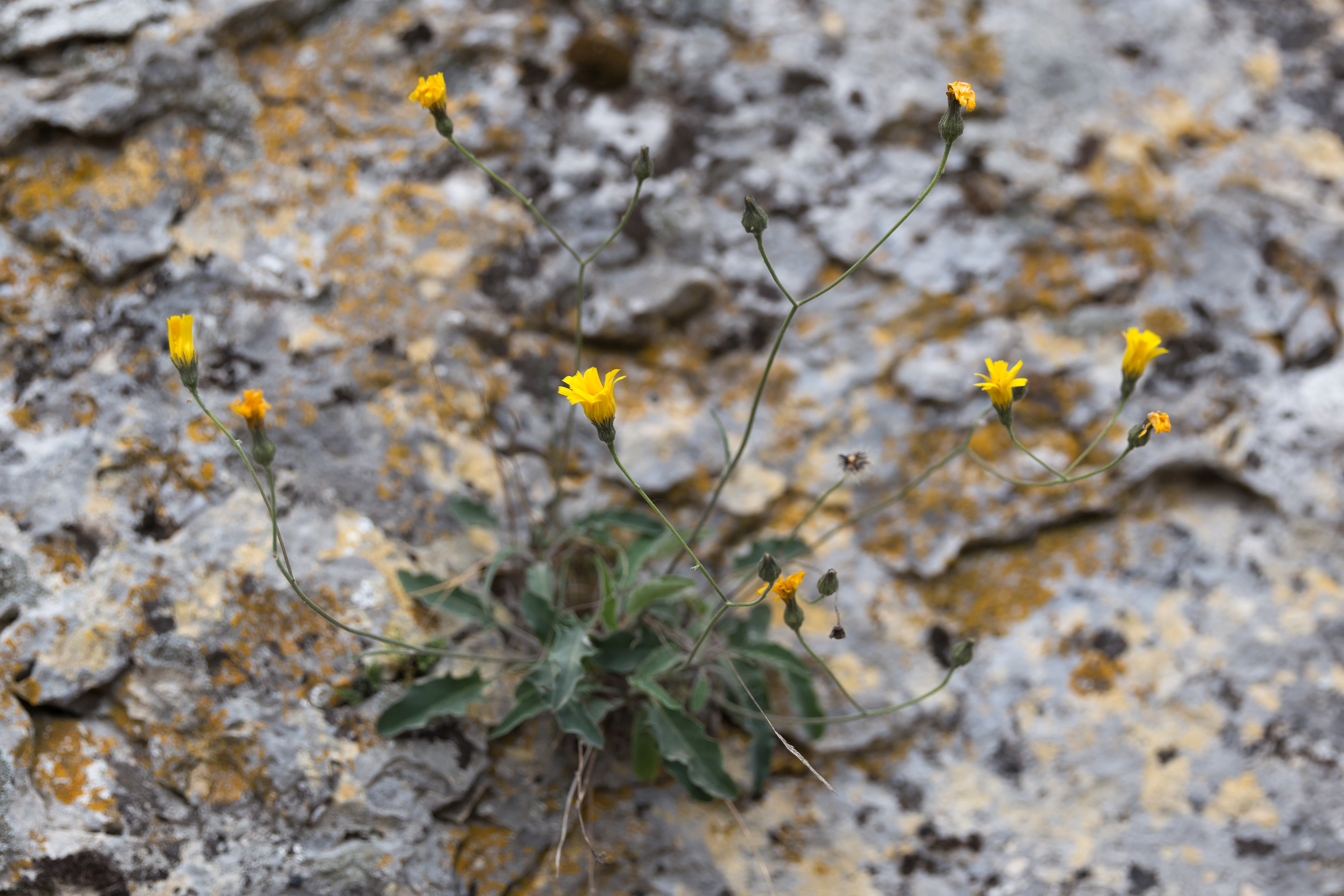 Hieracium murorum (Wall hawkweed) growing through a crack in the rock in Aiguèze, France.